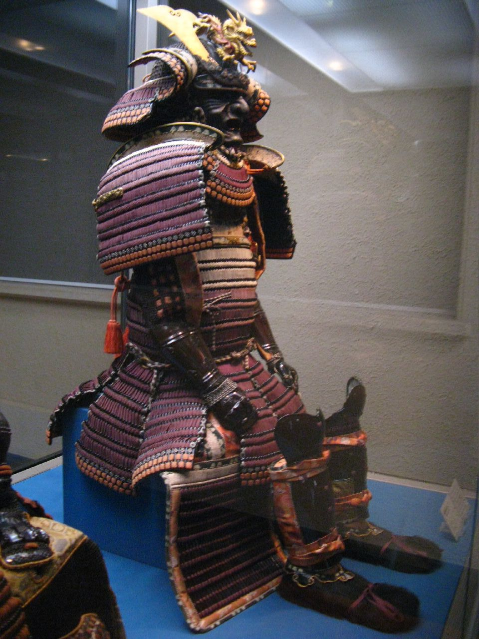 Antique Japanese (samurai) hon kozane dou gusoku, Tokyo National Museum.